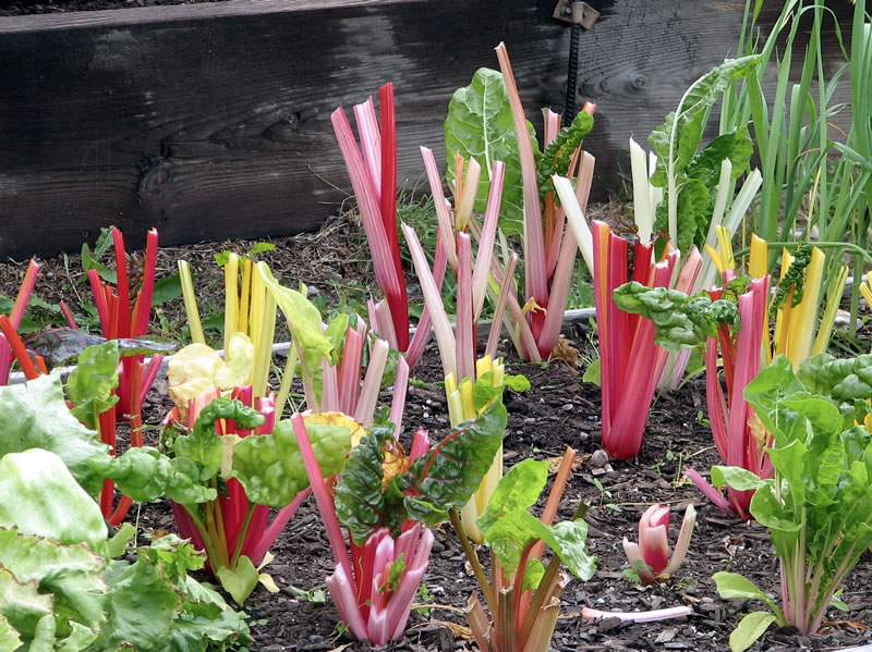 Chard being grown in Alaska, ready for the next round